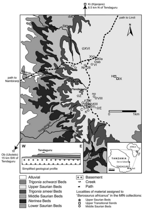 Geologic map of the Tendaguru Formation with members and fossil localities indicated, Tanzania